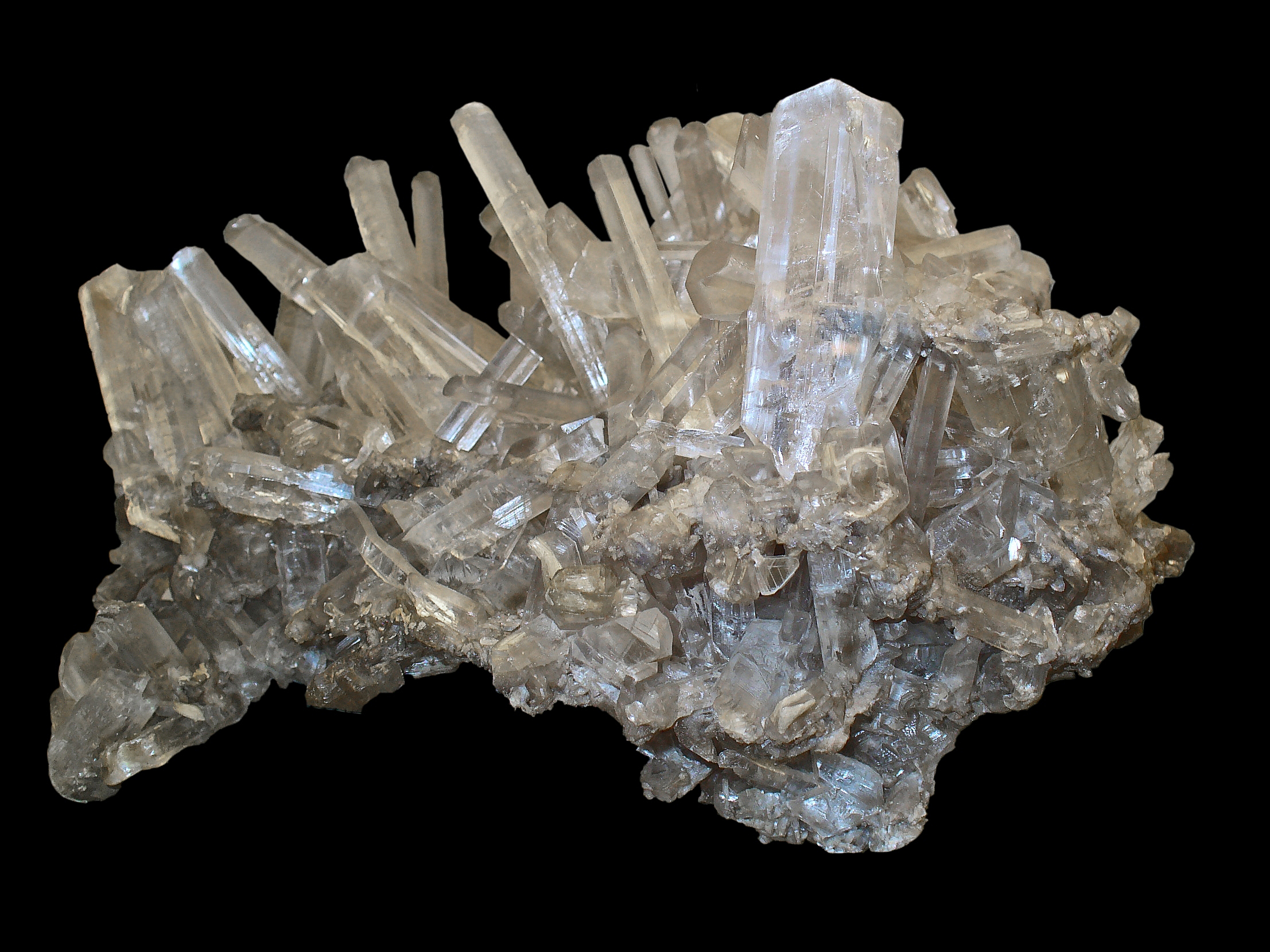 Gypsum, Calcium sulfate, Ca[SO4] • 2 H2O; Friedrichsroda, Thüringen; Collection of the Institute of Mineralogy, University Tübingen. Gypsum is used in homeopathy as remedy: Calcium sulfuricum (Calc-s.)